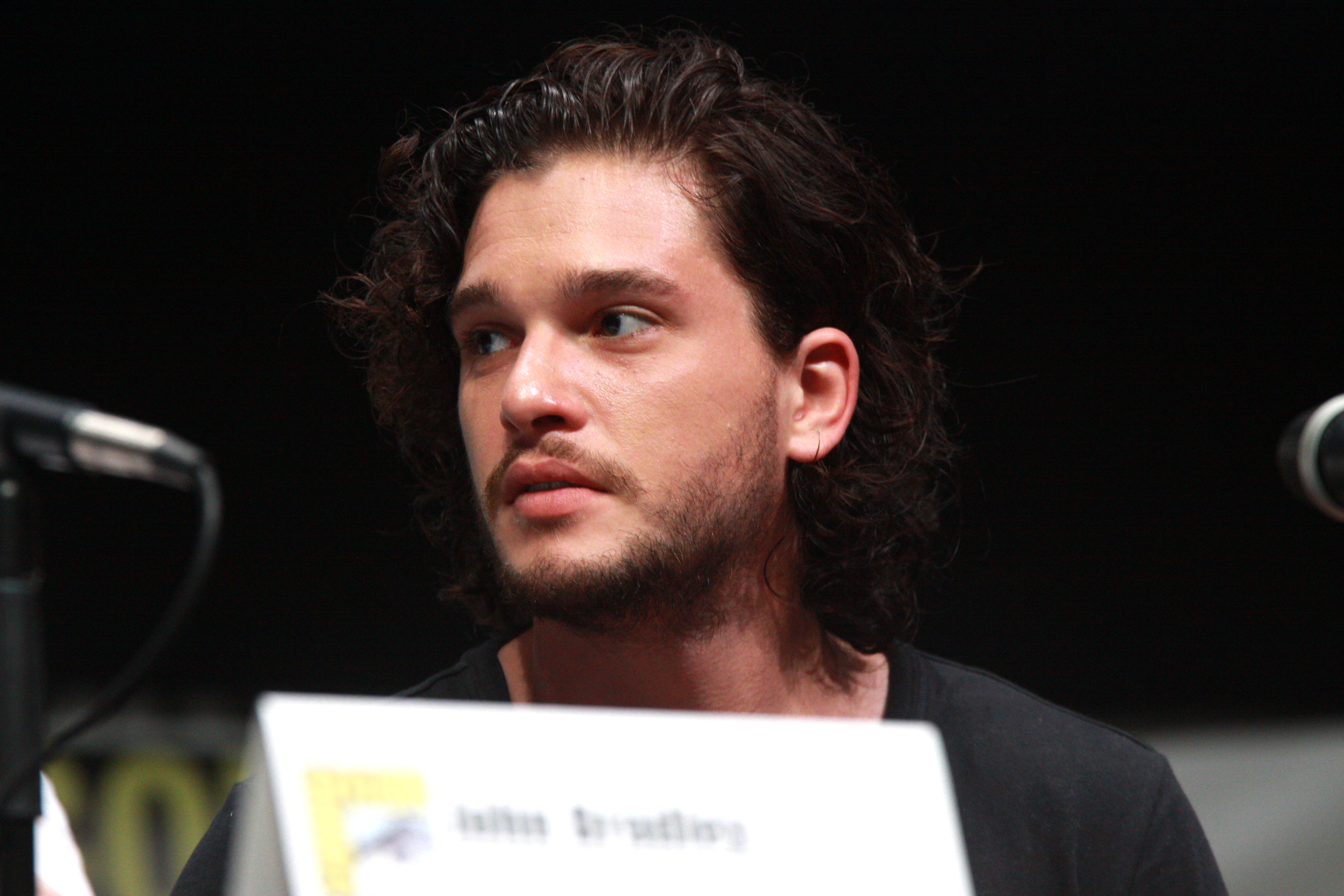 Kit Harrington speaking at the 2013 San Diego Comic Con International, for "Game of Thrones", at the San Diego Convention Center in San Diego, California.